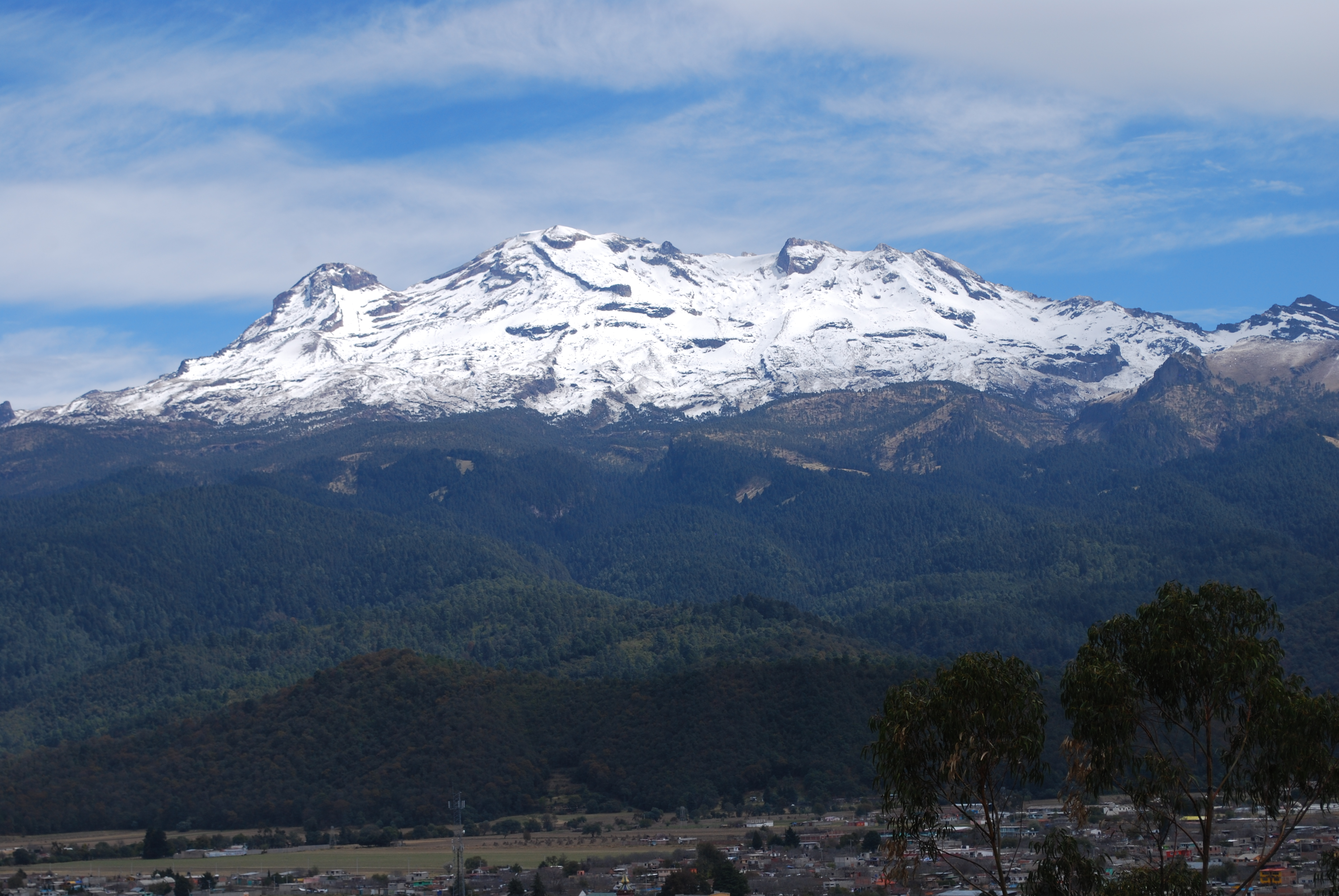 Iztaccihuatl — as seen from the Sacromonte mountain in Amecameca, Mexico State. Part of the Trans-Mexican Volcanic Belt — a principal volcanic mountain system in central México.